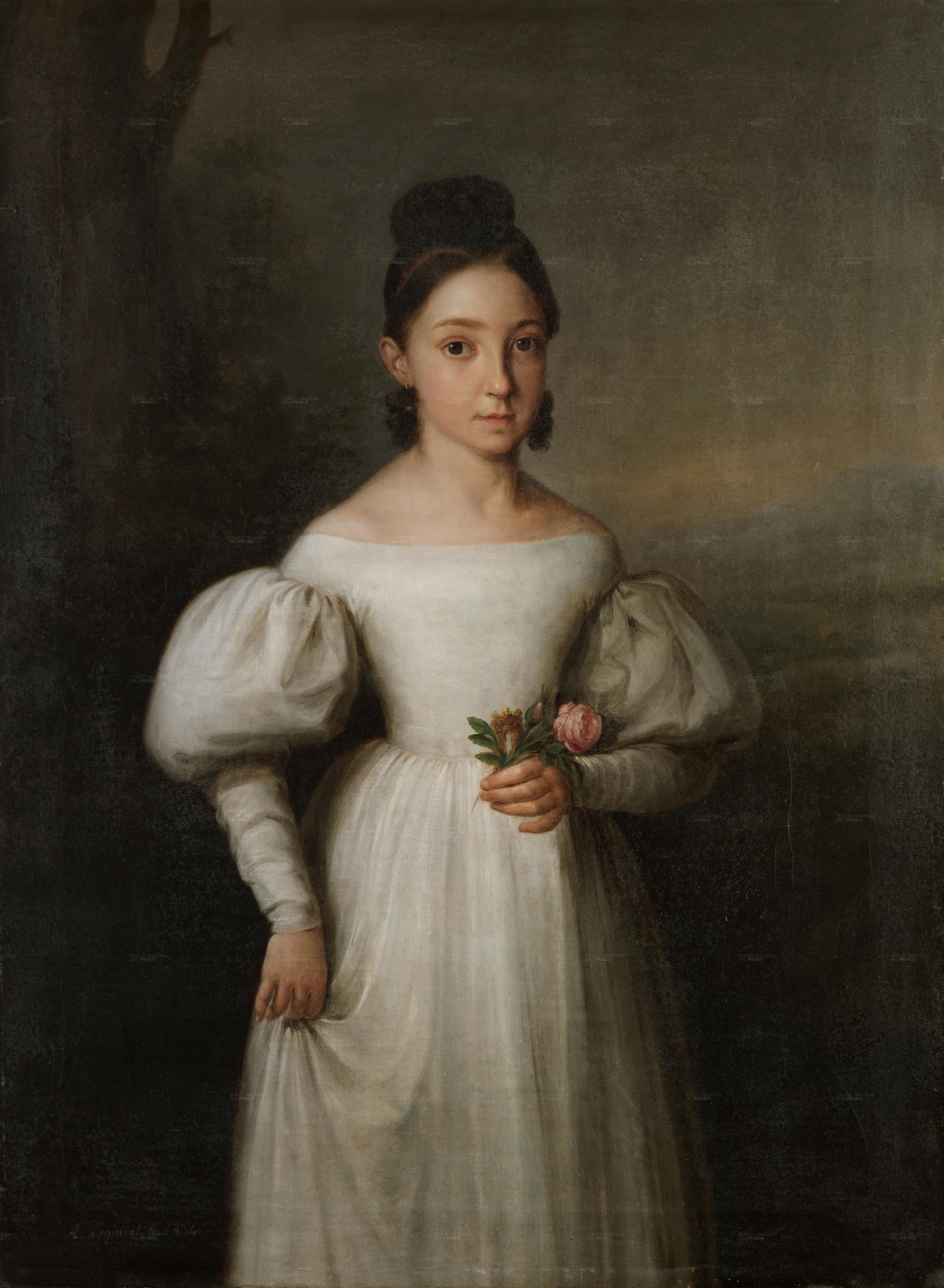 Portrait of Luisa Teresa de Borbón (1824–1900), Infanta of Spain